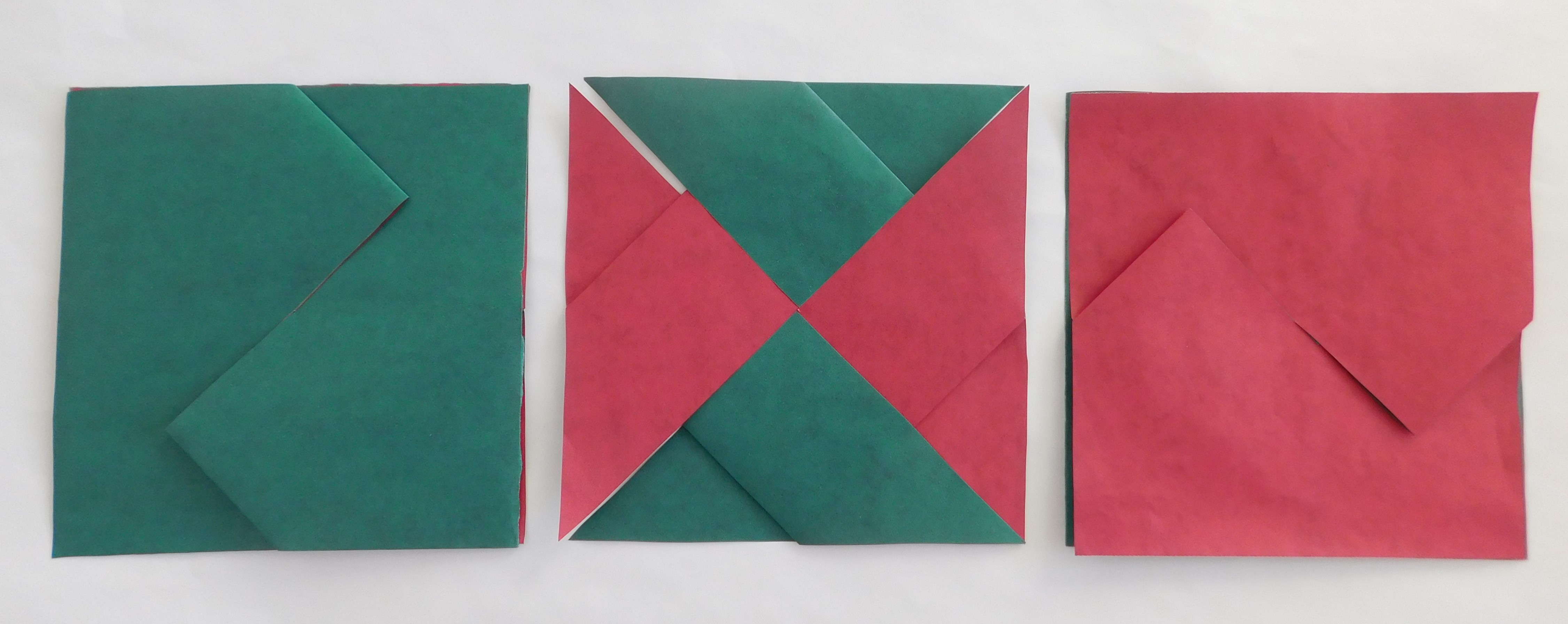 Central part of sphere eversion (turning inside out) process flattened with folds along a square, cut out of doubly colored paper (red/green). The depicted part is homeomorphic to a cylinder/collar/bottleneck, to be glued to two spheres opposite oriented. The middle stage is the Morin surface, with both sides equally privileged. The left stage can be easily unfolded to a green (outer side) sphere, the right - red. The middle stage has removed four flat triangles to see the folds underneath, the triangles can be shifted above of beneath the surface to proceed to the left/right. Note the quadruple intersection in the center, double intersections along diagonals and fold annihilation at the vertices of the inner square (midpoints of sides of the outer square).